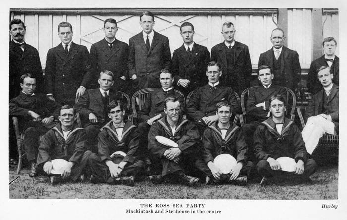 Crew from the Aurora (Ross Sea Party in a Shackleton's Endurance expedition)